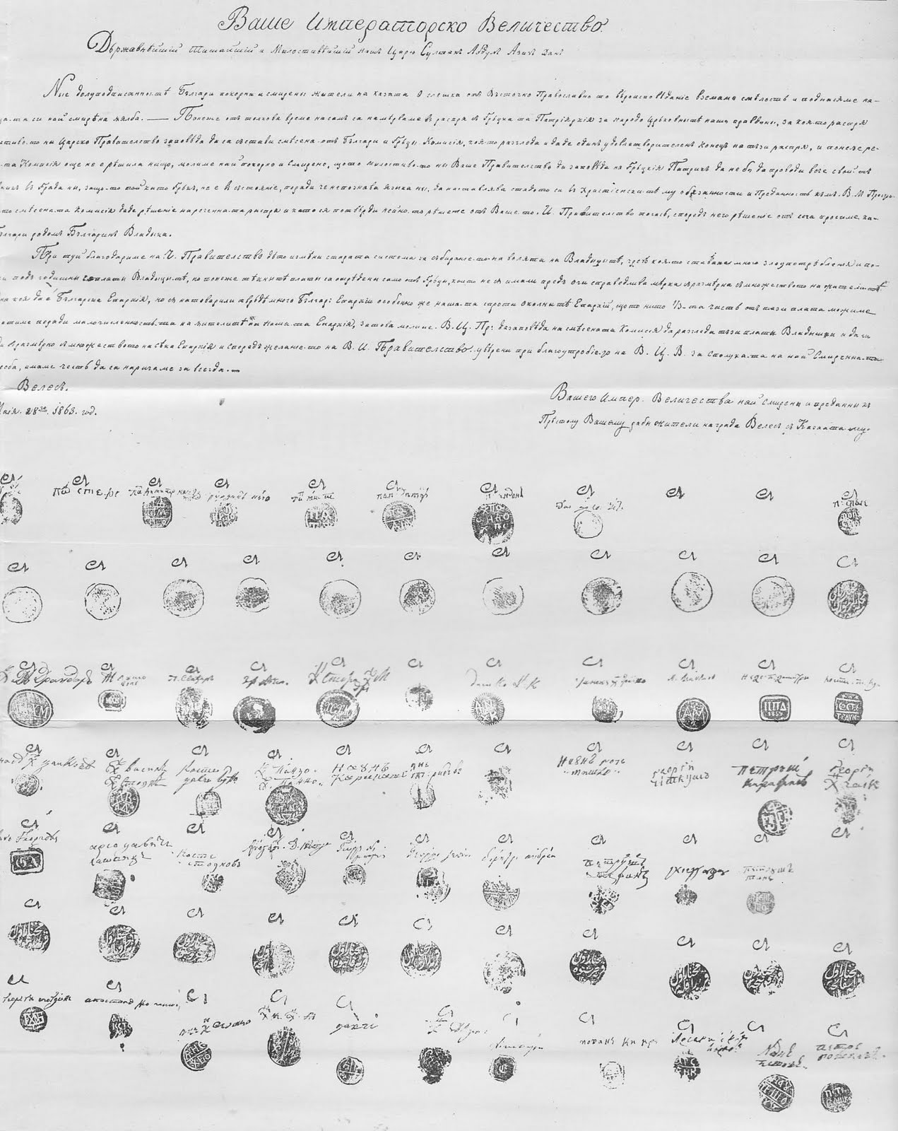 Plea for bulgarian mitropolite